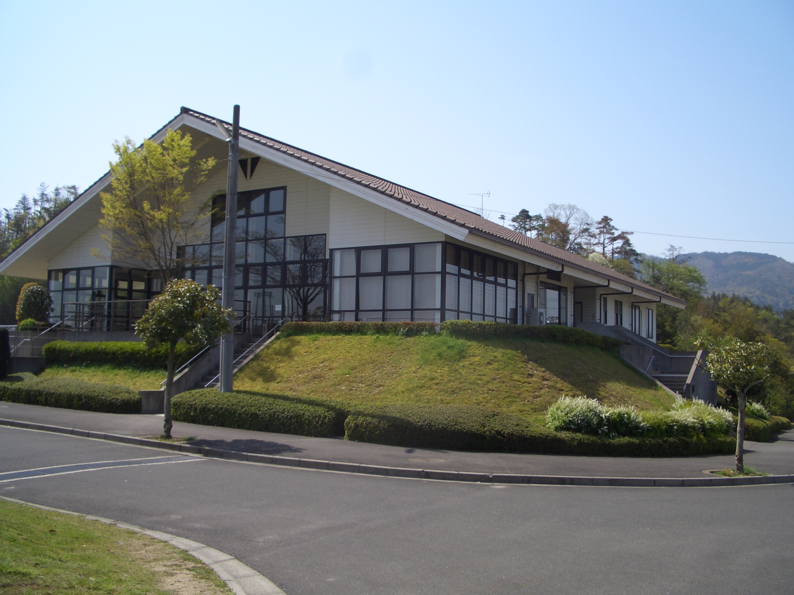 Kure-City SportsCenter Clubhouse,Kure-City,Japan